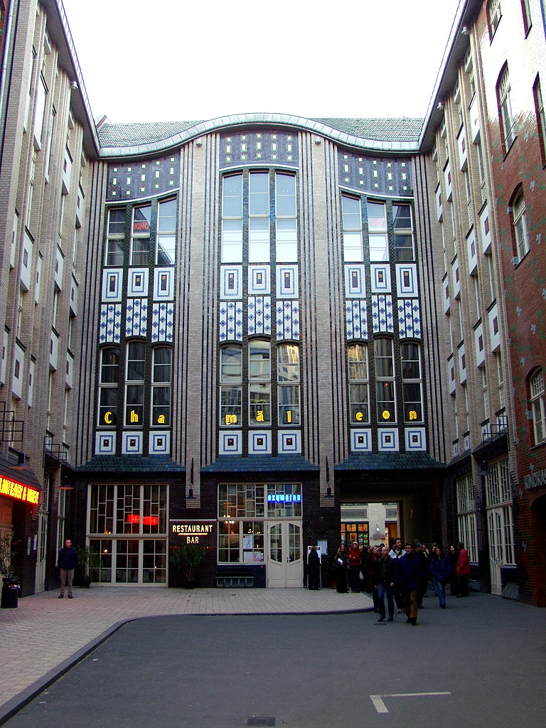 Hackesche Höfe at Berlin